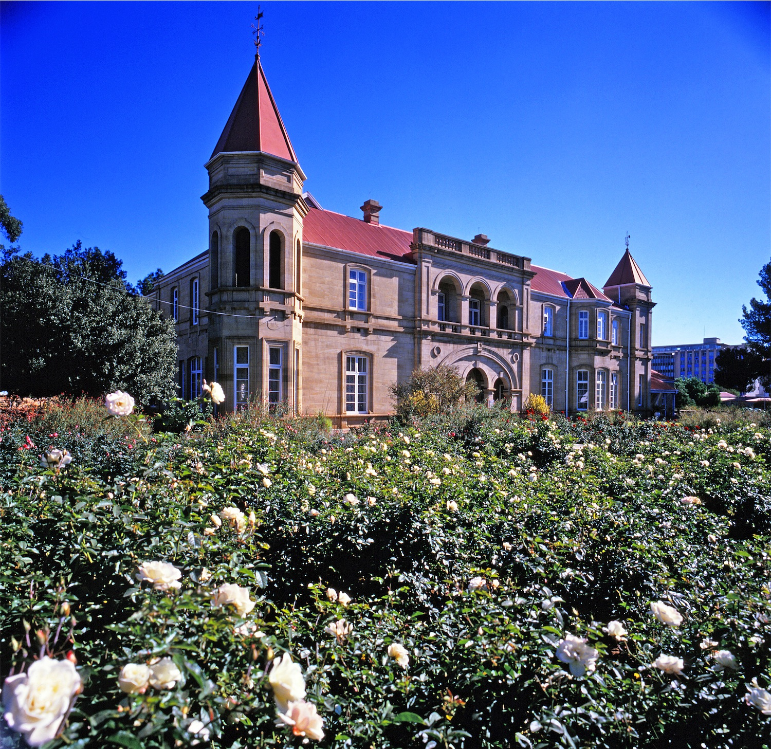 This media shows a South African Protected Site with SAHRA file reference 9/2/302/0007.